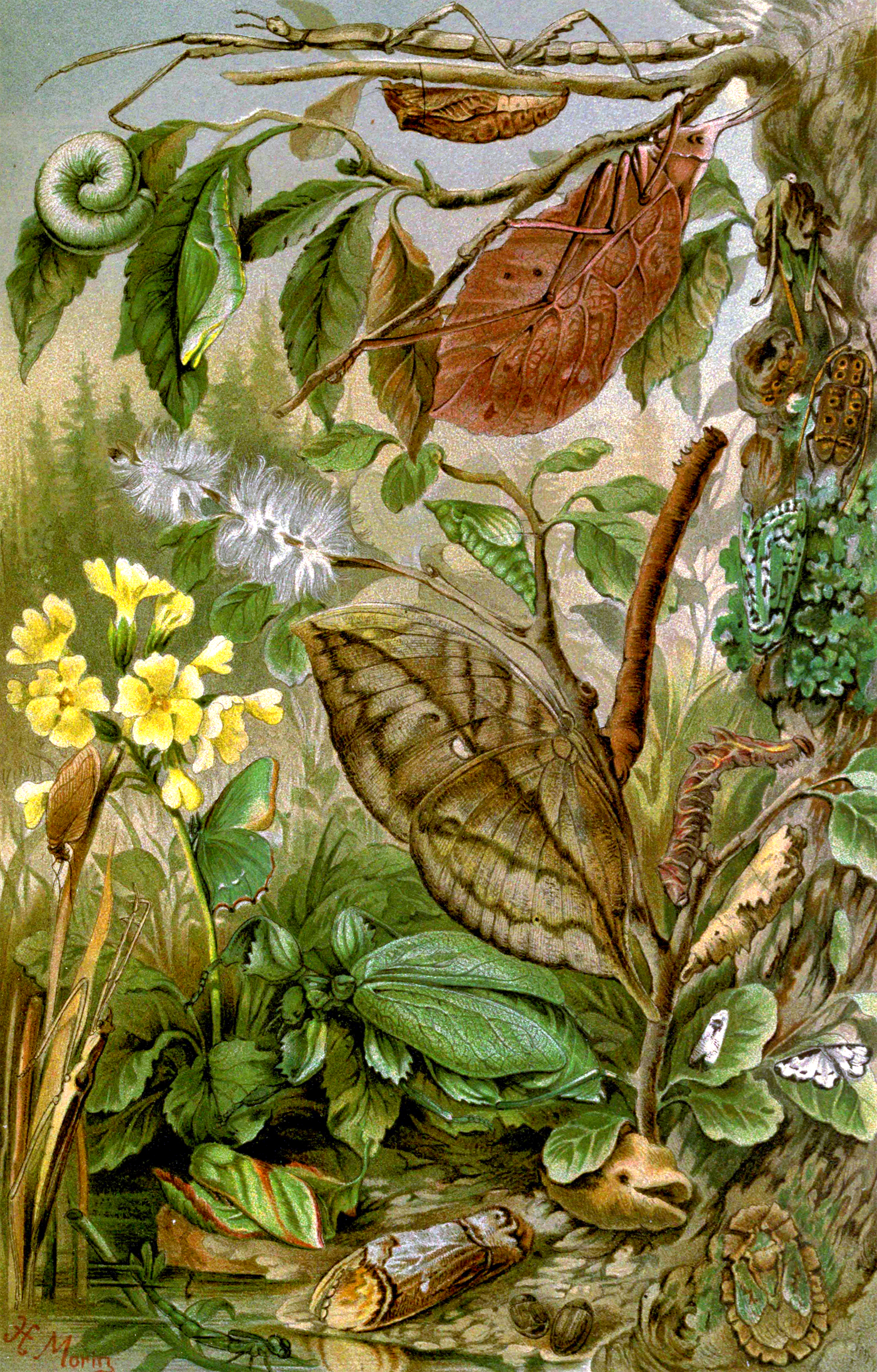 Various examples of Pterygota